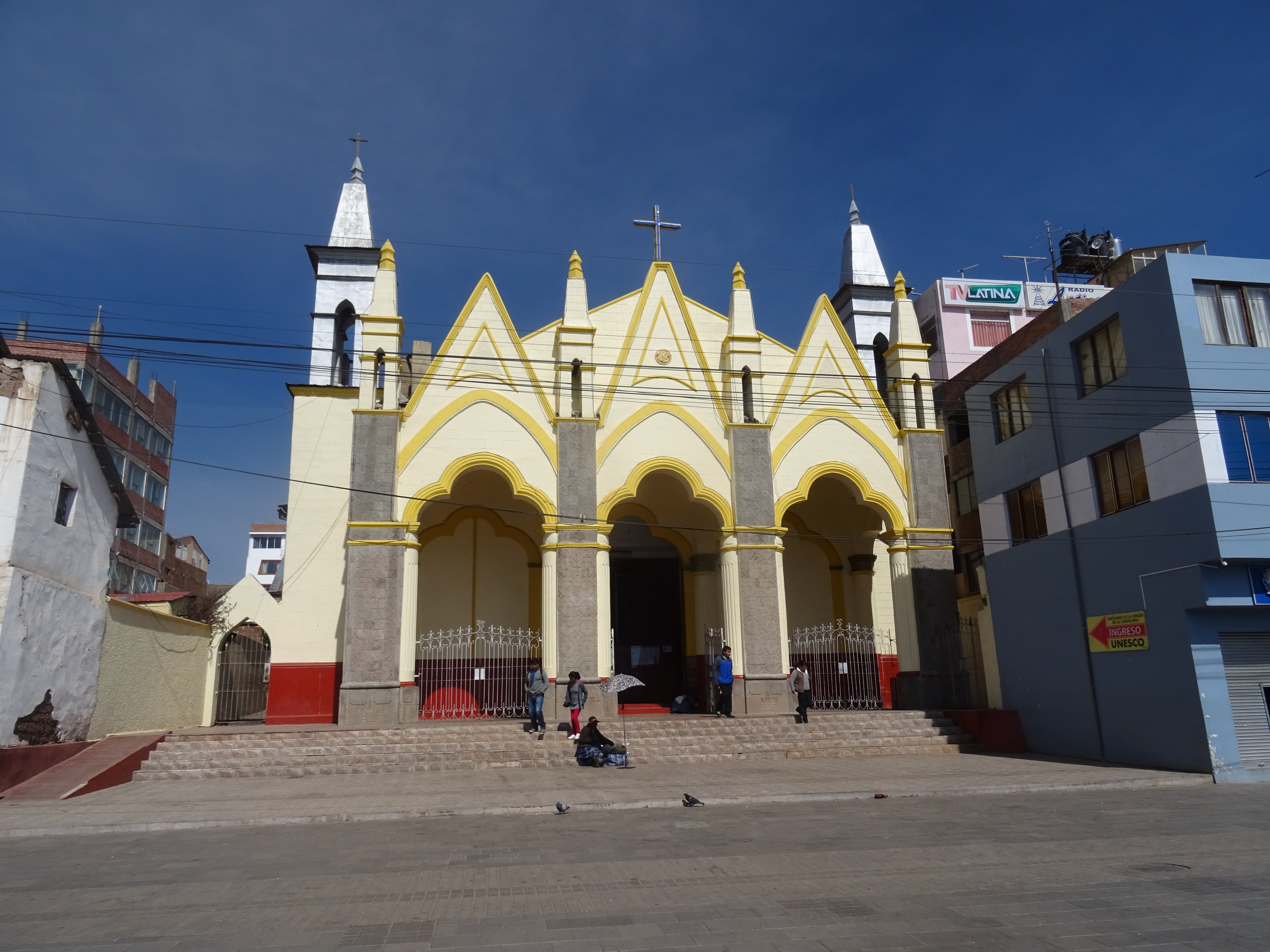 San Juan Bautista Church in Puno, Peru.